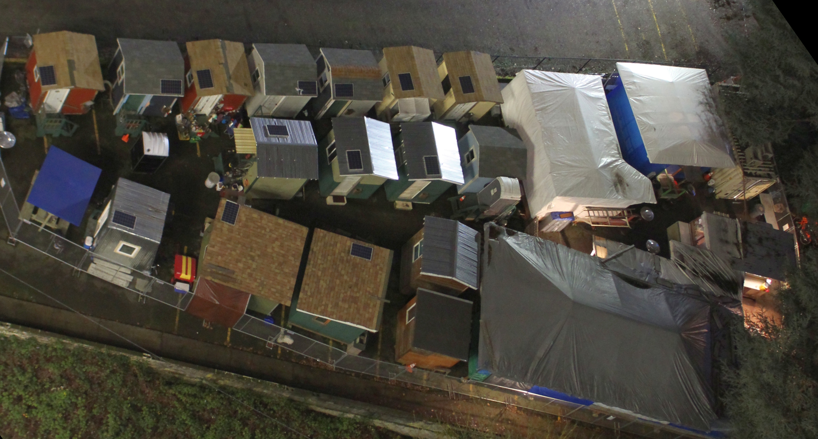 Right 2 Dream Too transient encampment village showing 17 tiny houses restricted for members of the private club and tent area for general transient encampment